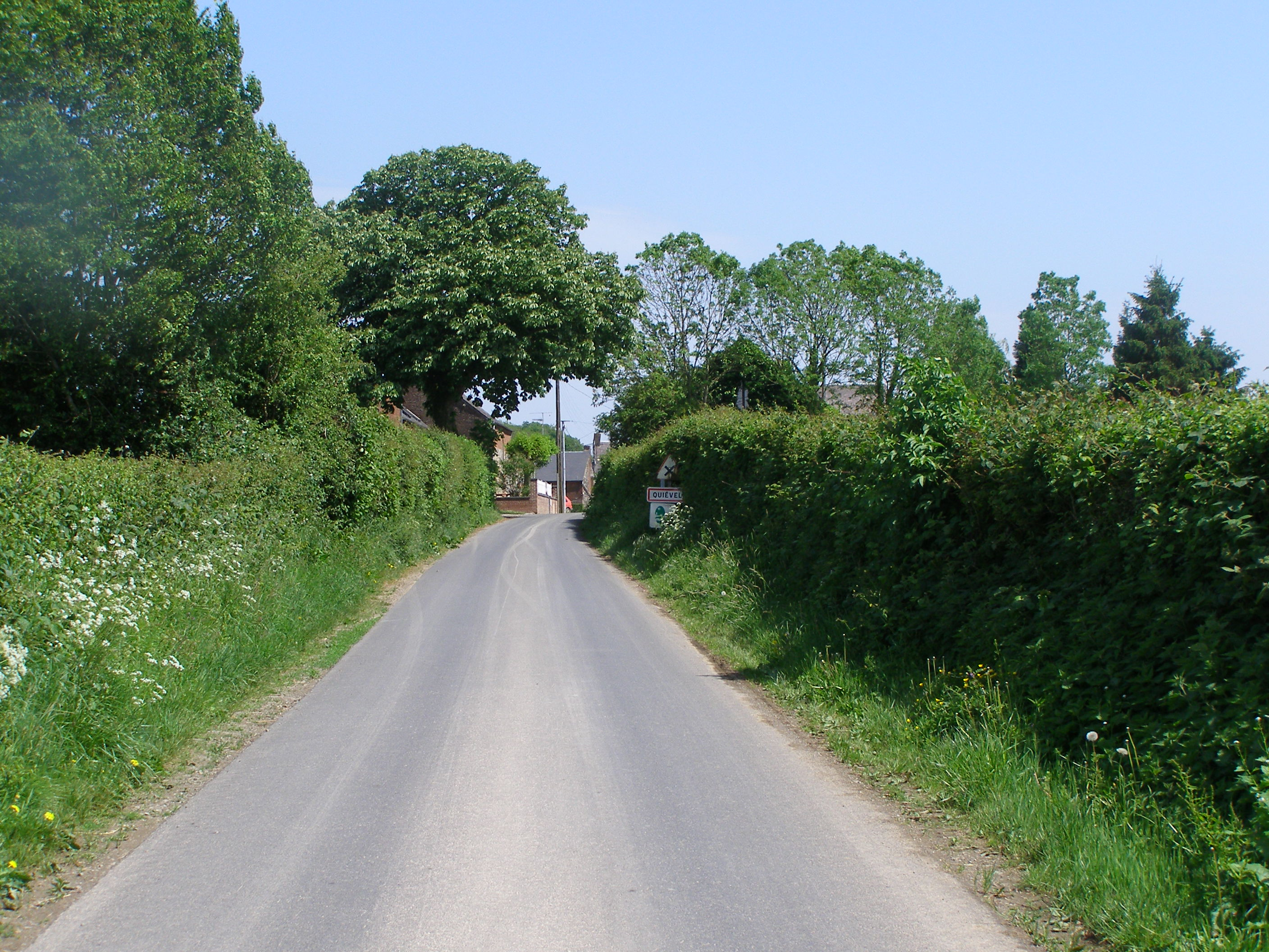 The entrance to the village.